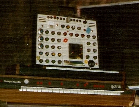 An EMS Synthi A atop a keyboard, circa 1974.